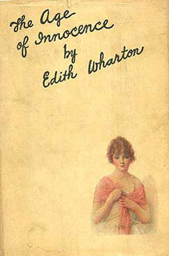 Dust jacket from the 1st book edition of The Age of Innocence, published in the US in 1920.